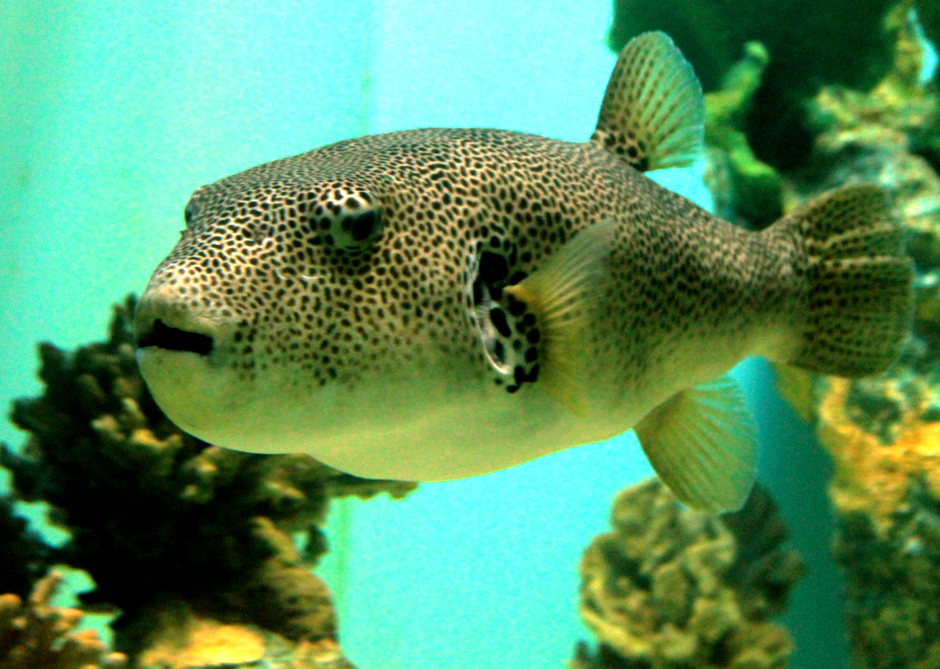 Fish Arothron stellatus in Prague sea aquarium, Czech Republic